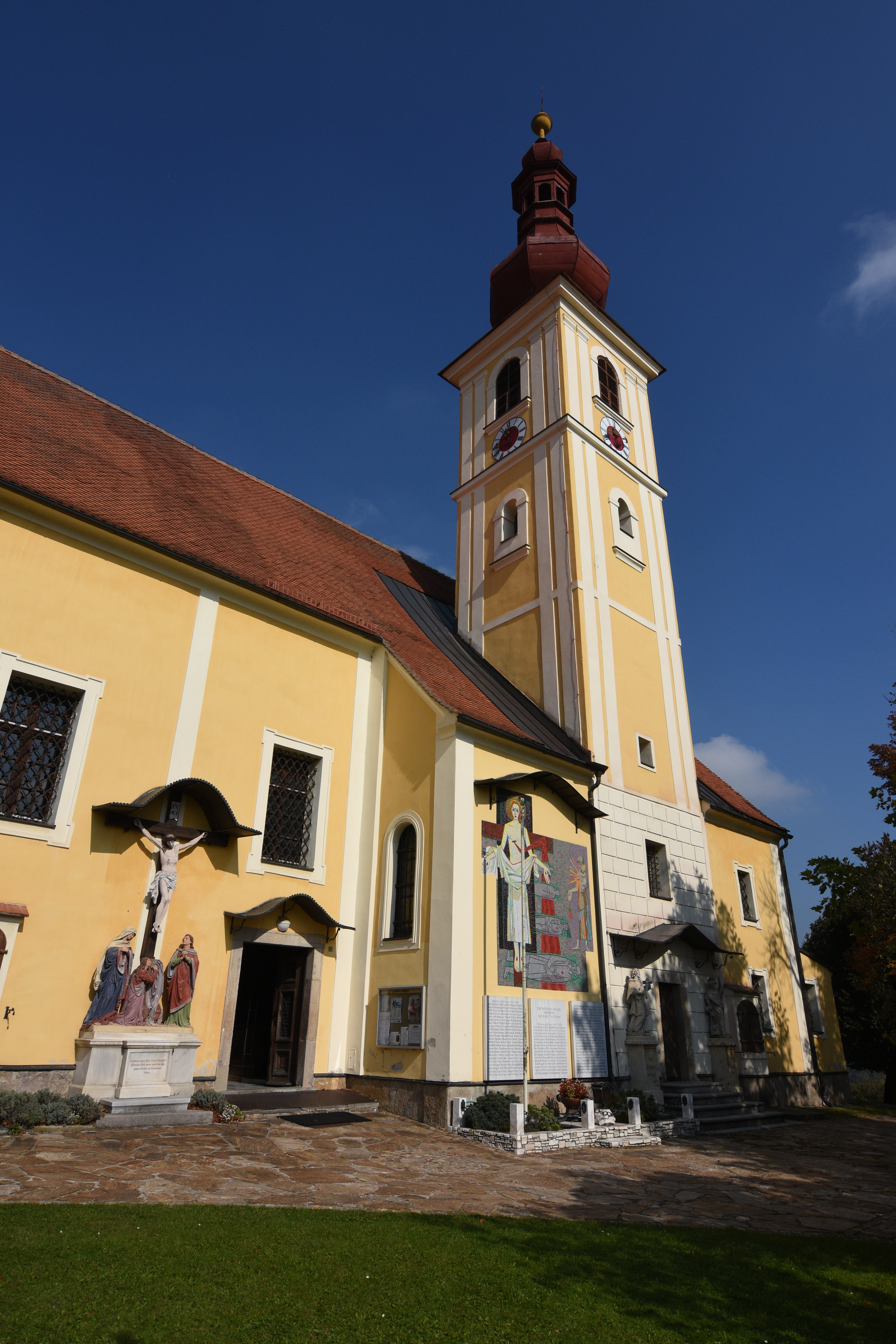 Church Kumberg